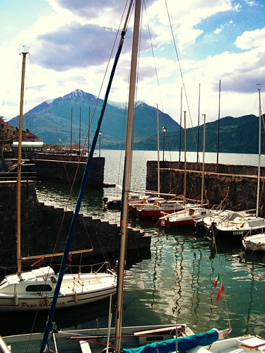 The harbour of Bellano Picture taken by user:Idéfix, march 2004